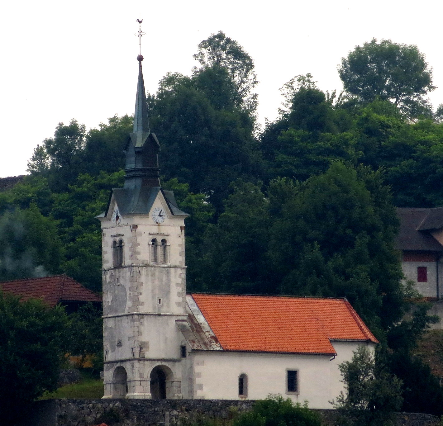 Archangel Michael Church in Šmihel pod Nanosom, Municipality of Postojna, Slovenia